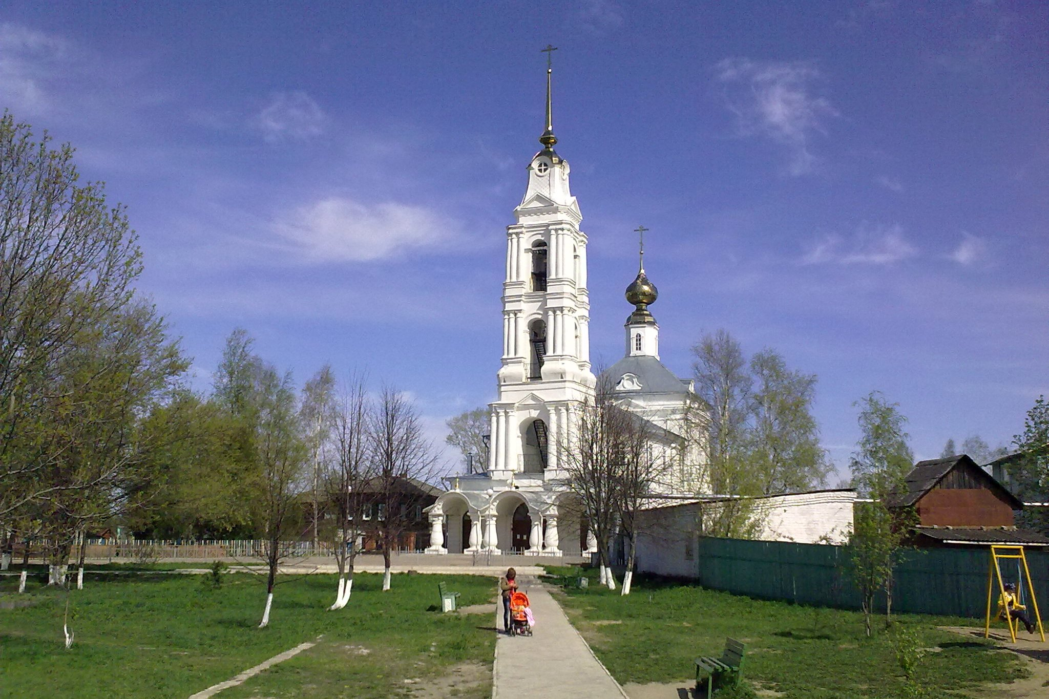 Buy town (Kostroma reg., Russia). Church of the Annunciation